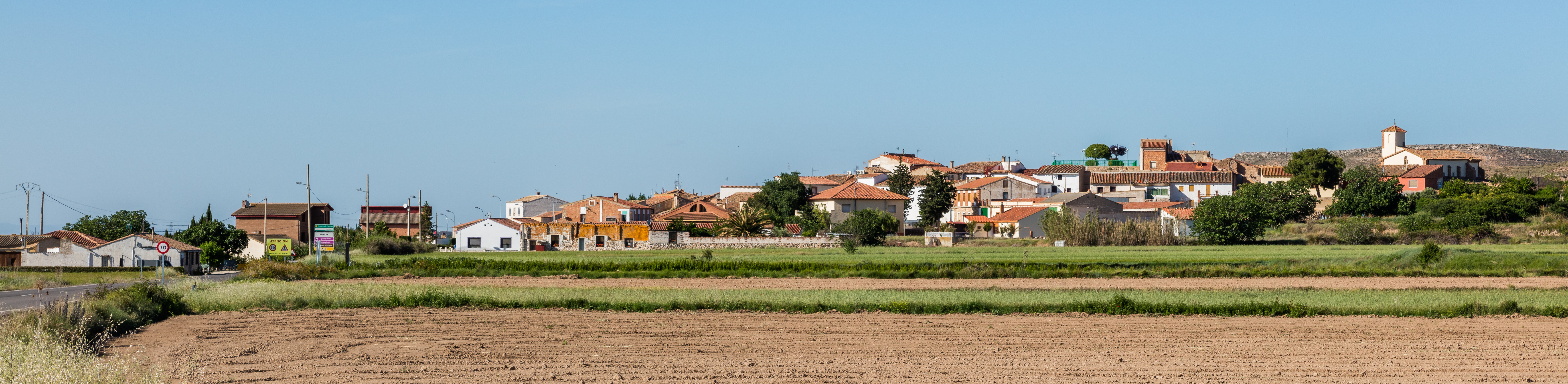 Vierlas, Zaragoza, Spain